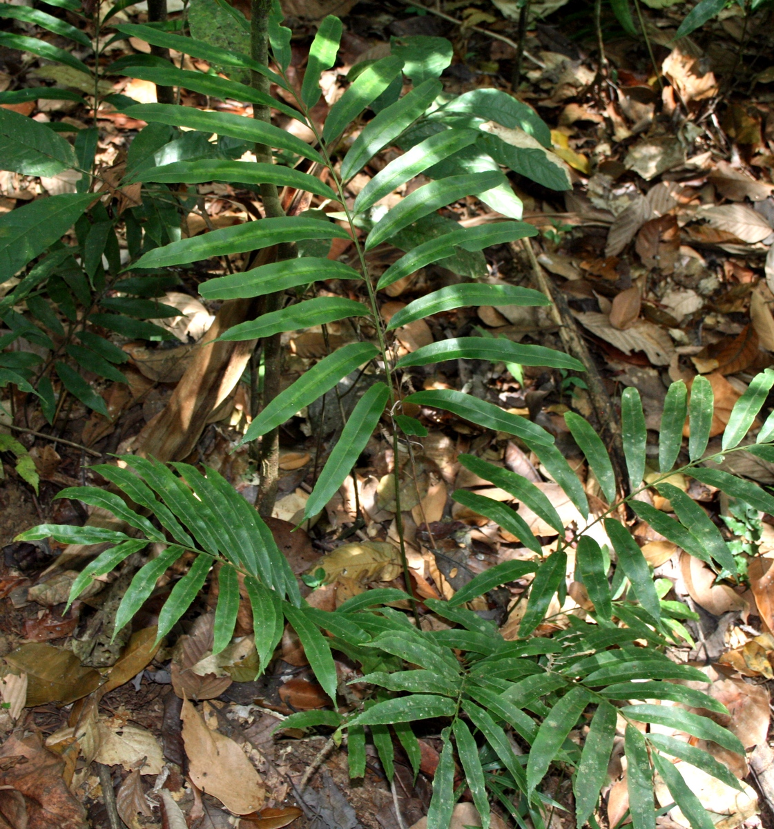 Metaxya rostrata, Rio Tabaro, Venezuela